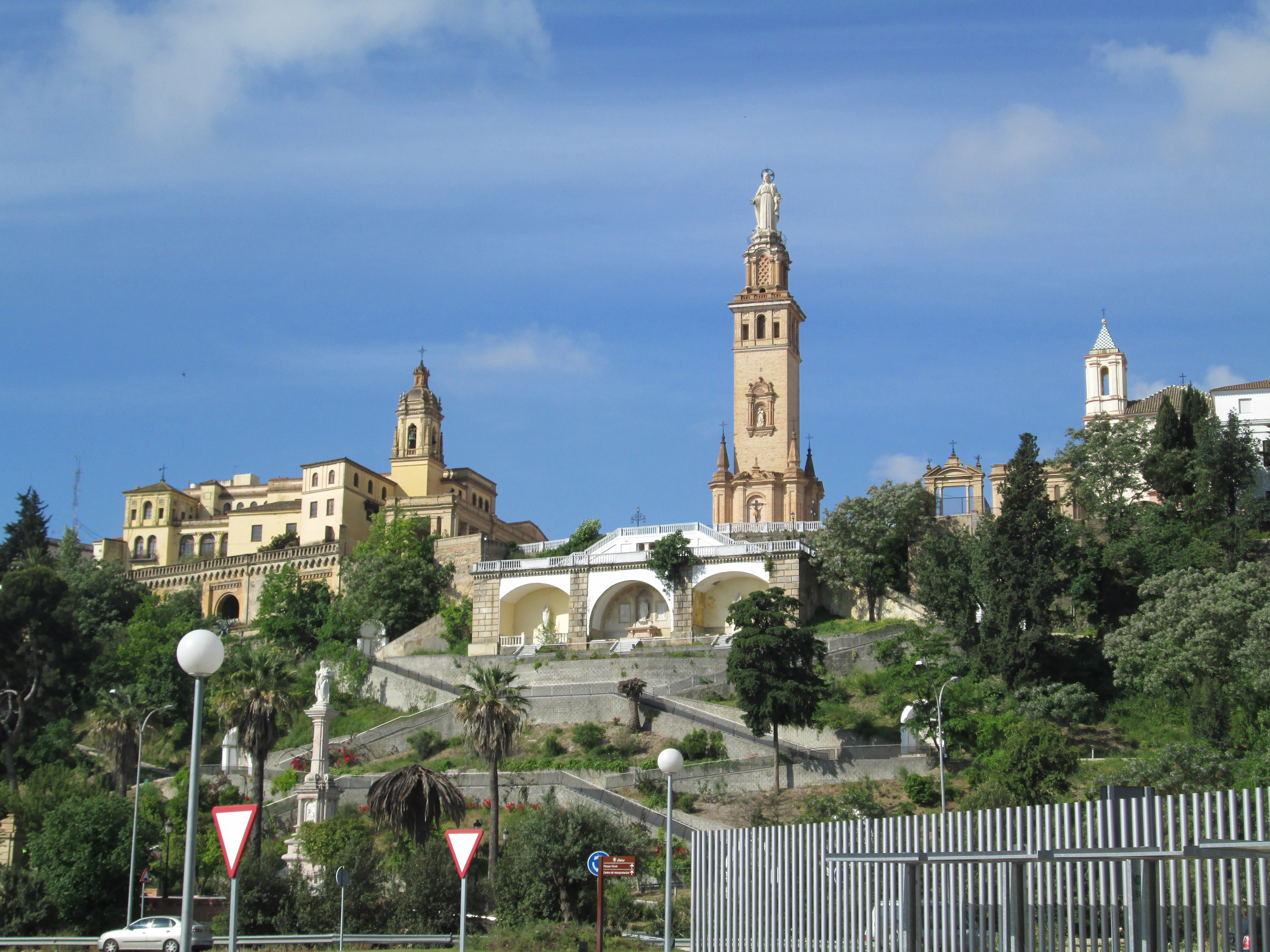 Complejo del Sagrado Corazón